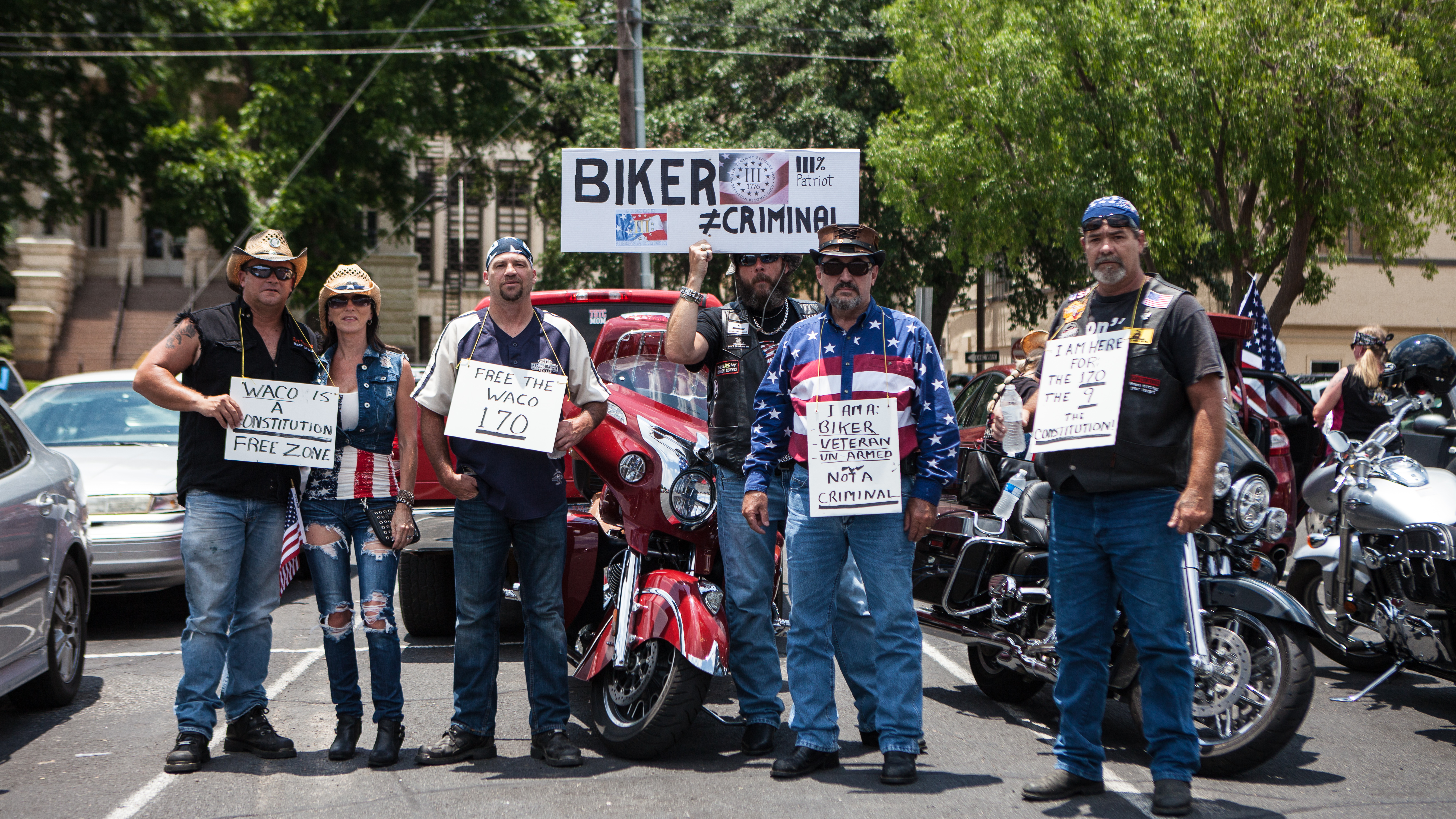 Group of Bikers standing united for incarcerated 170.